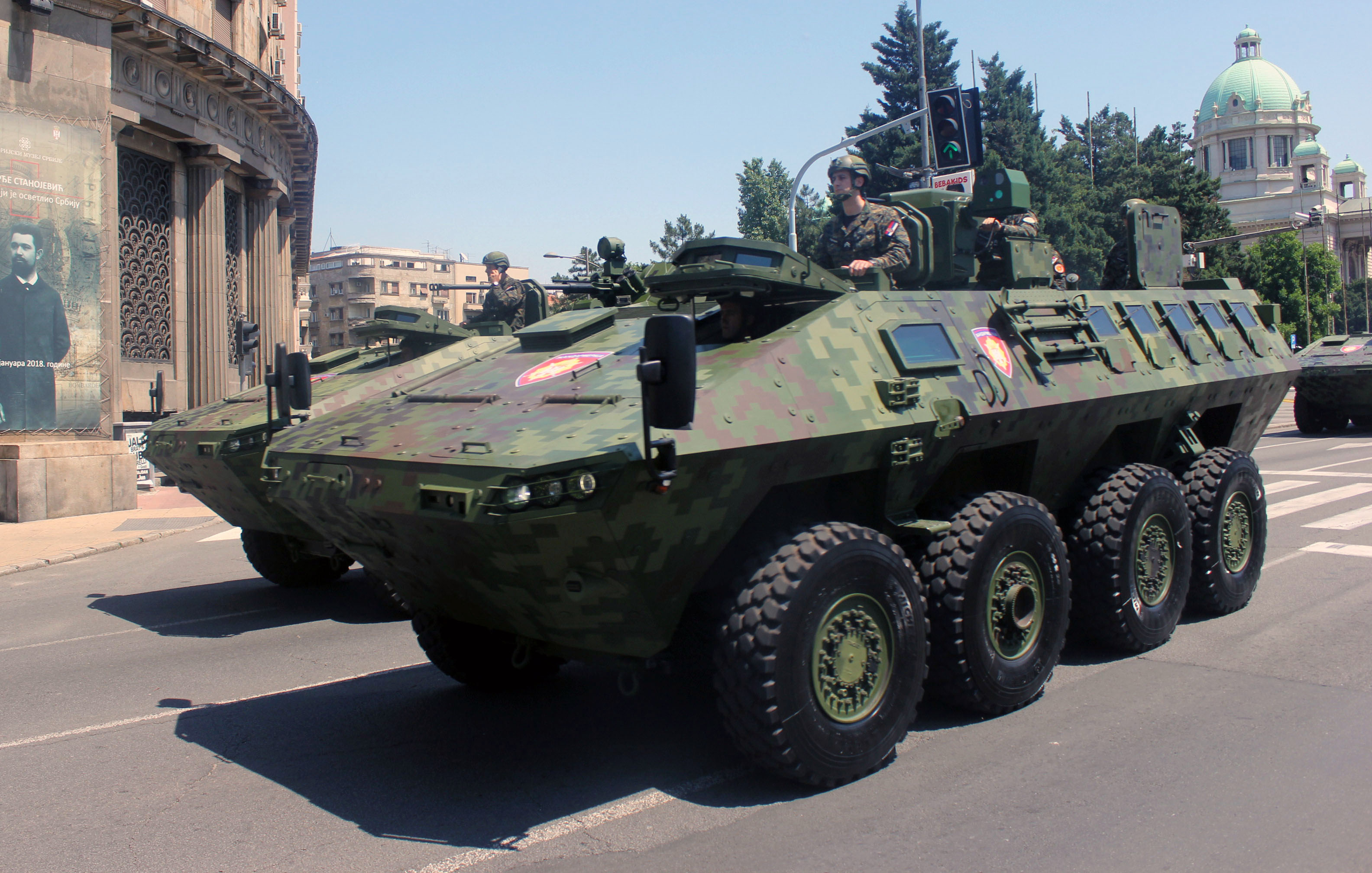 Serbian Gendarmerie new Lazar-3 8x8 armored personal carrier on 2018 Police Day parade at Belgrade.